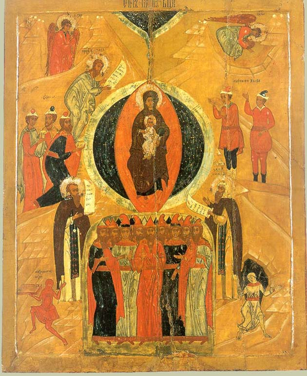 Sobor Bogorodici